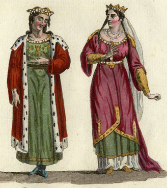 Depicted people: Louis V, King of France and Adelaide-Blanche of Anjou